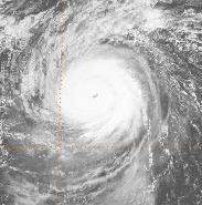 Super Typhoon Zelda of the 1994 Pacific typhoon season on November 5 at 00Z, taken from the GMS-4 satellite. Cropped from original image.